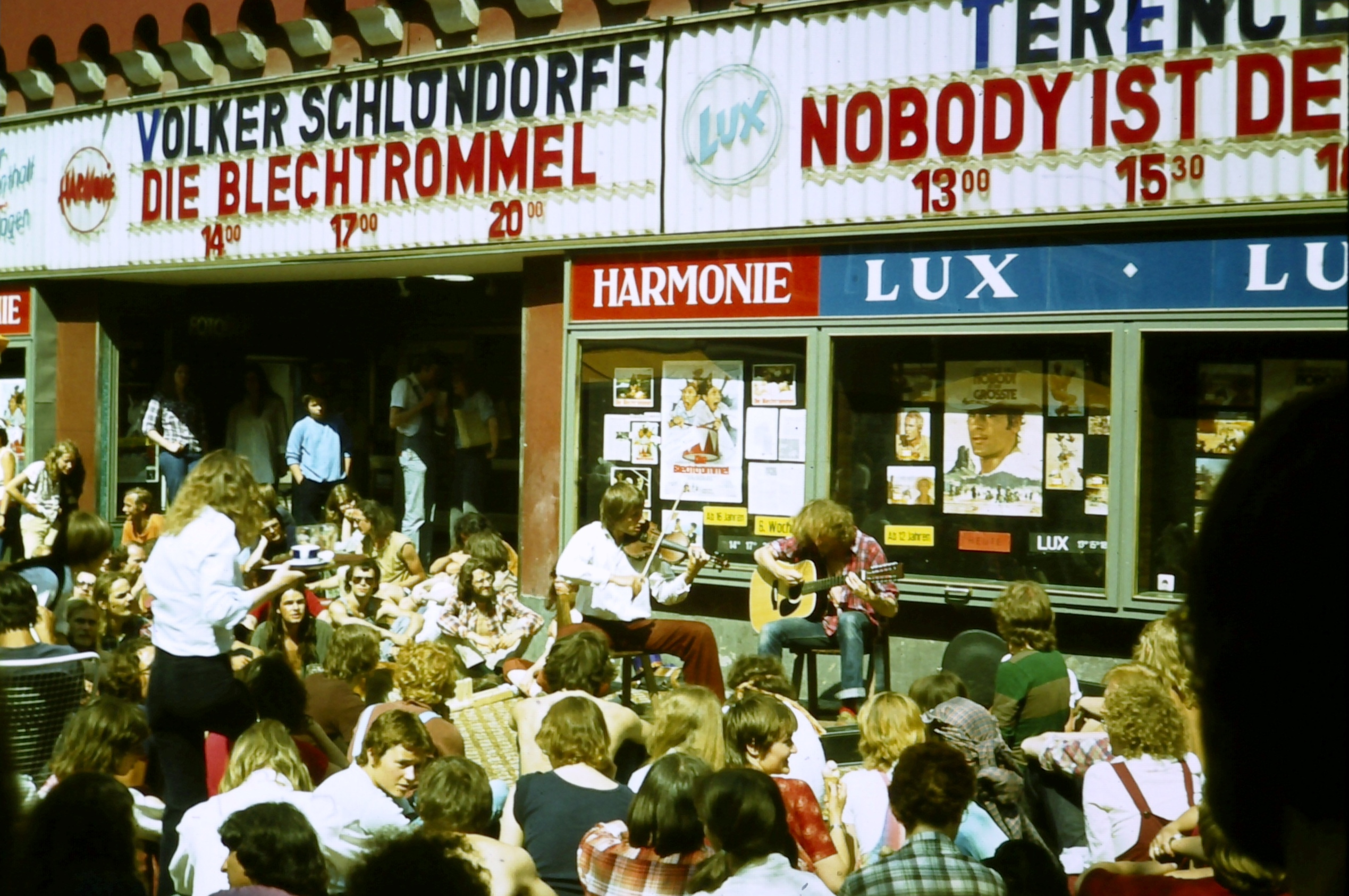 Blechtrommel (Tin Drum) showing, Lux-Harmonie Cinema Heidelberg 1979